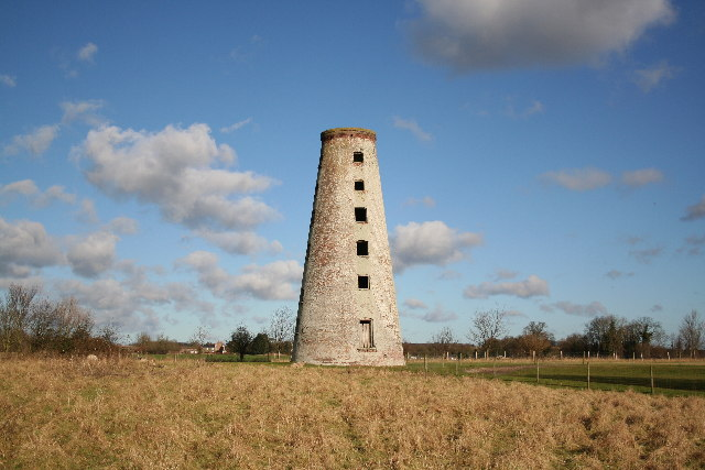 East Kirkby Windmill, Lincolnshire